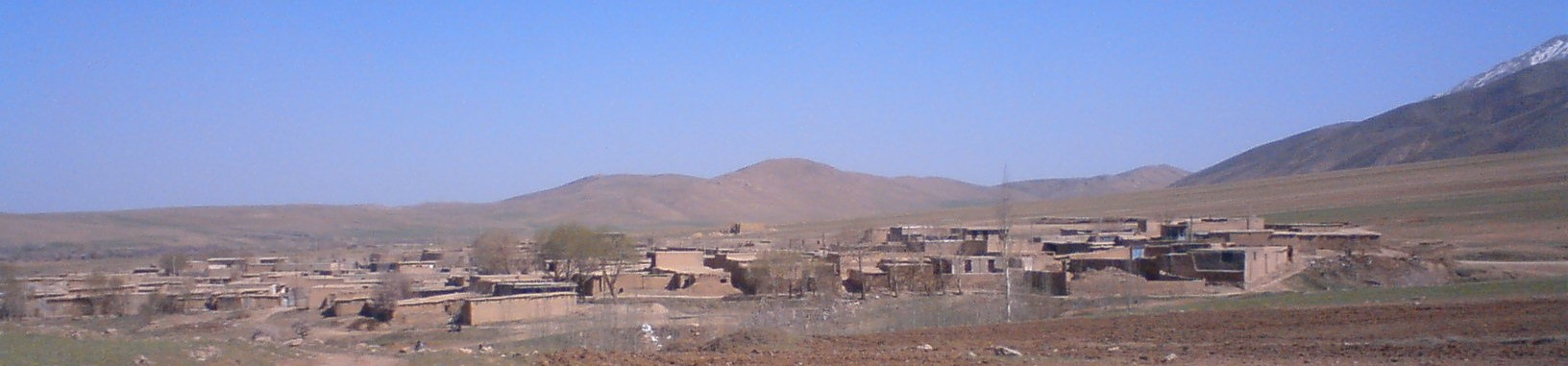 Famast is a villages in Nahavand town Hamadan Province in Iran